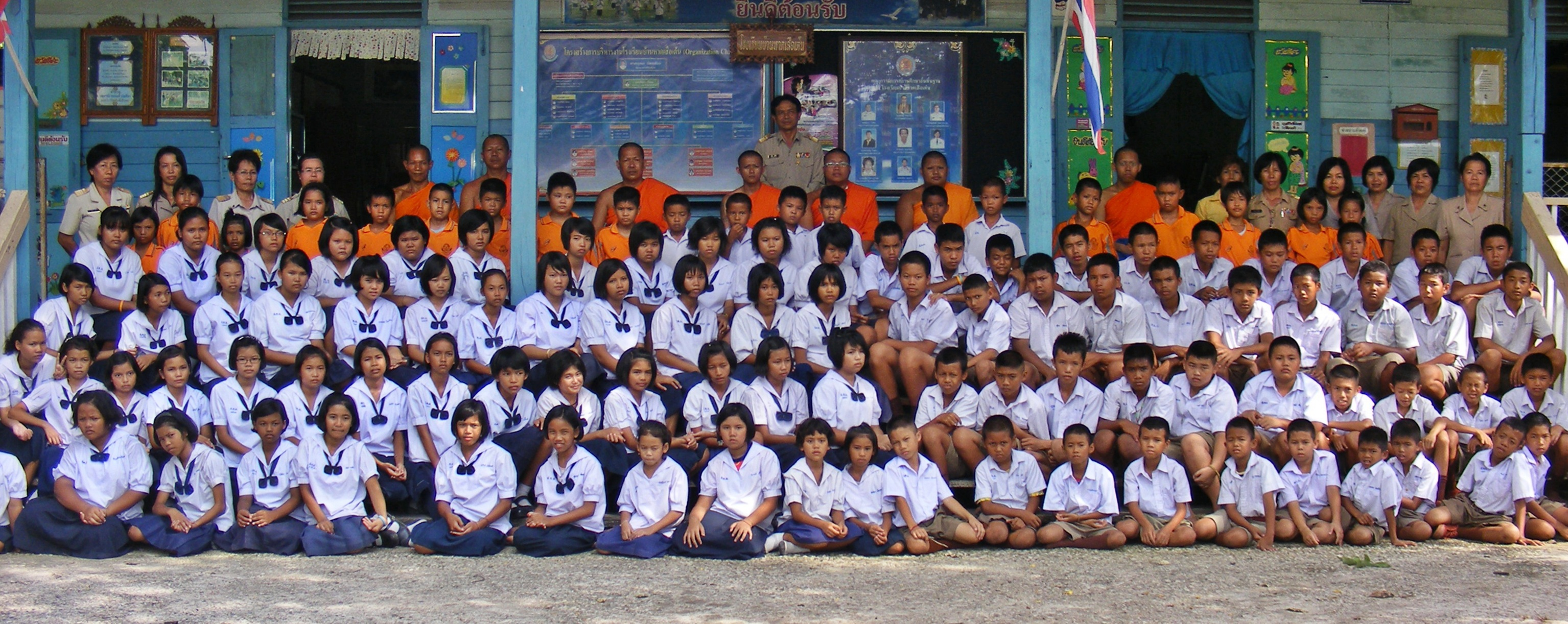 student in Ban Hat Suea Ten School in Ban Hat Suea Ten, Khung Taphao subdistrict, Mueang Uttaradit, Uttaradit Province, Thailand.